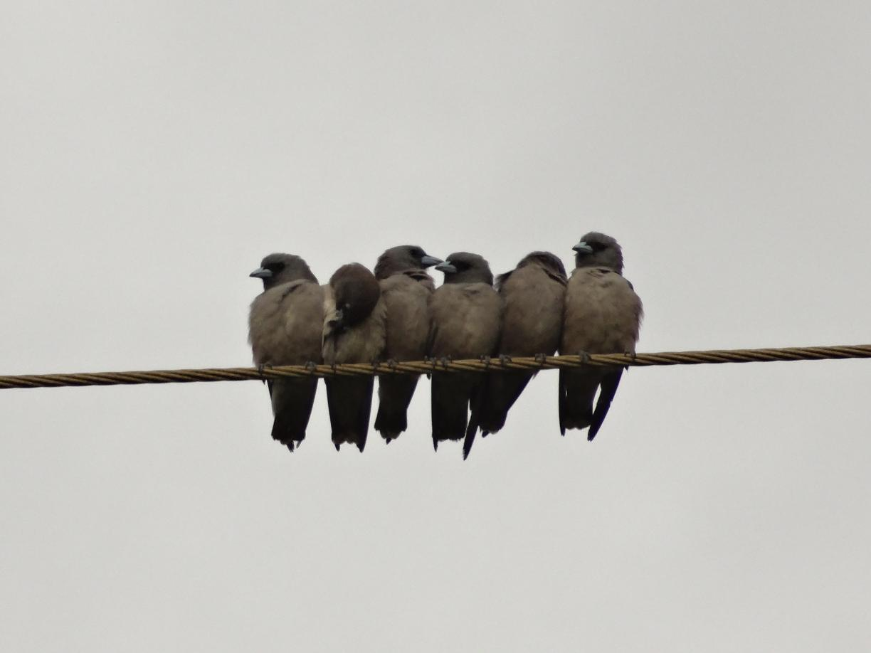 Group of Ashy woodswallows, Kumbla ,Kerala